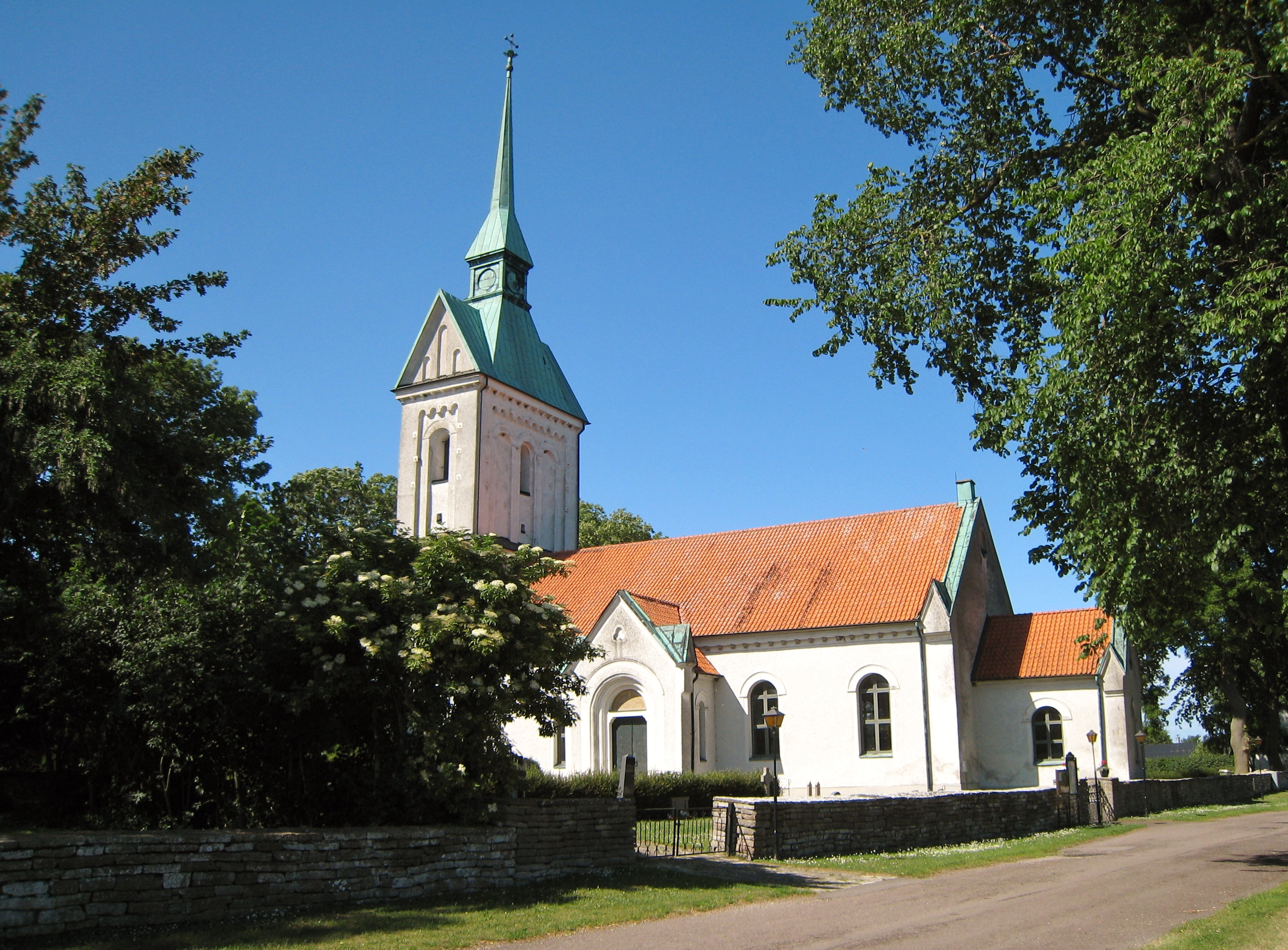 Gräsgård Church.Exterior